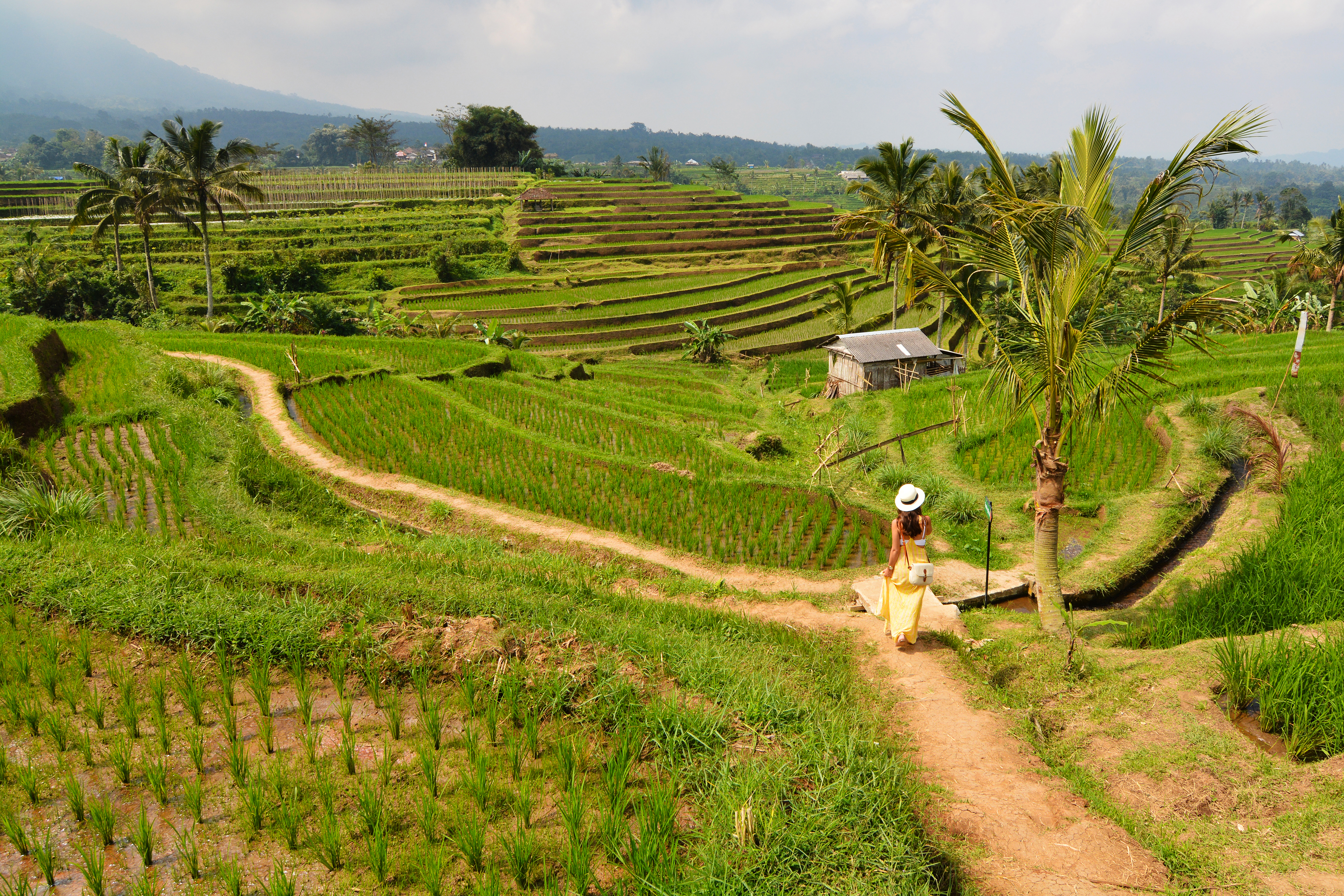 The unbelievably green rice fields at Jatiluwih are one of the most popular attractions for tourists in Bali, Indonesia